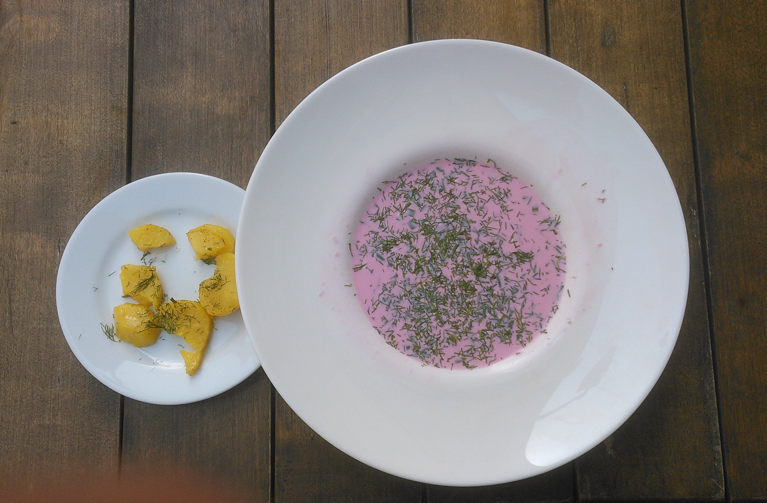 Lithuanian food. Popular Lithuanian cold beetroot soup.